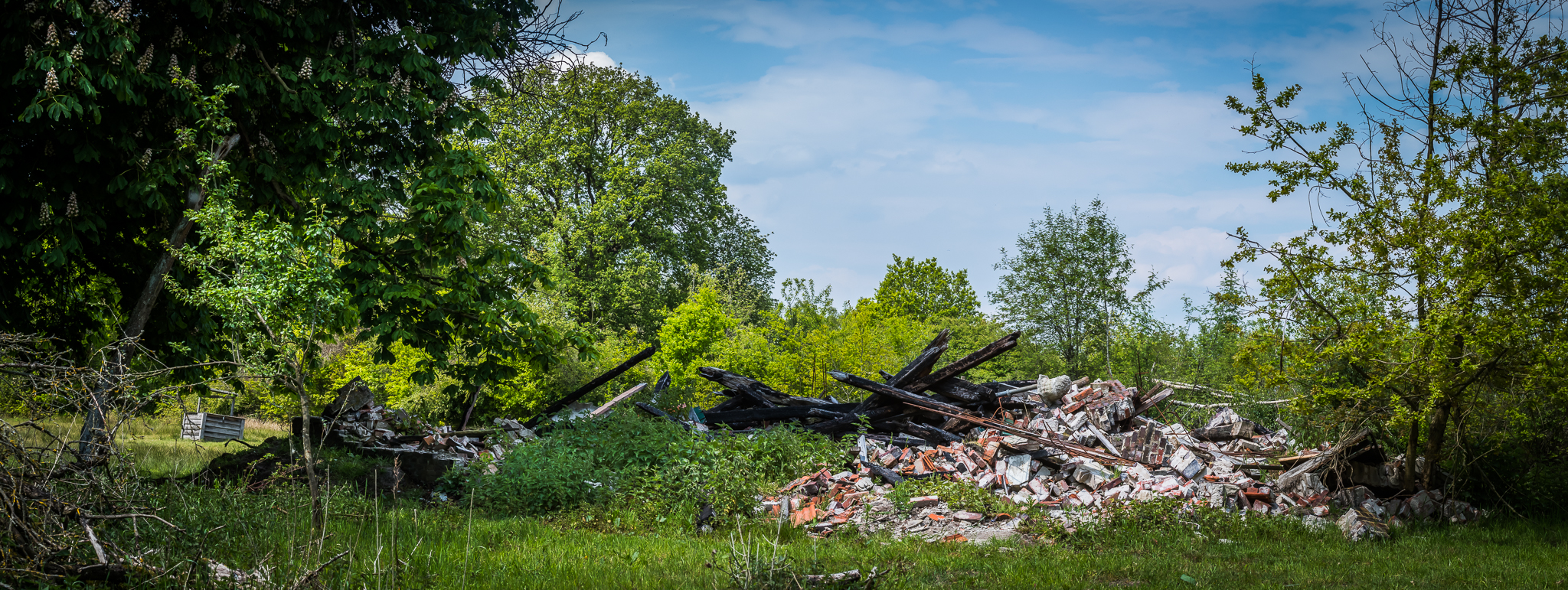 Ruin of the (in 2018) burnt down Little House of Uneken in Bargerveen Nature Reserve on the Laardijk near Zwartemeer.